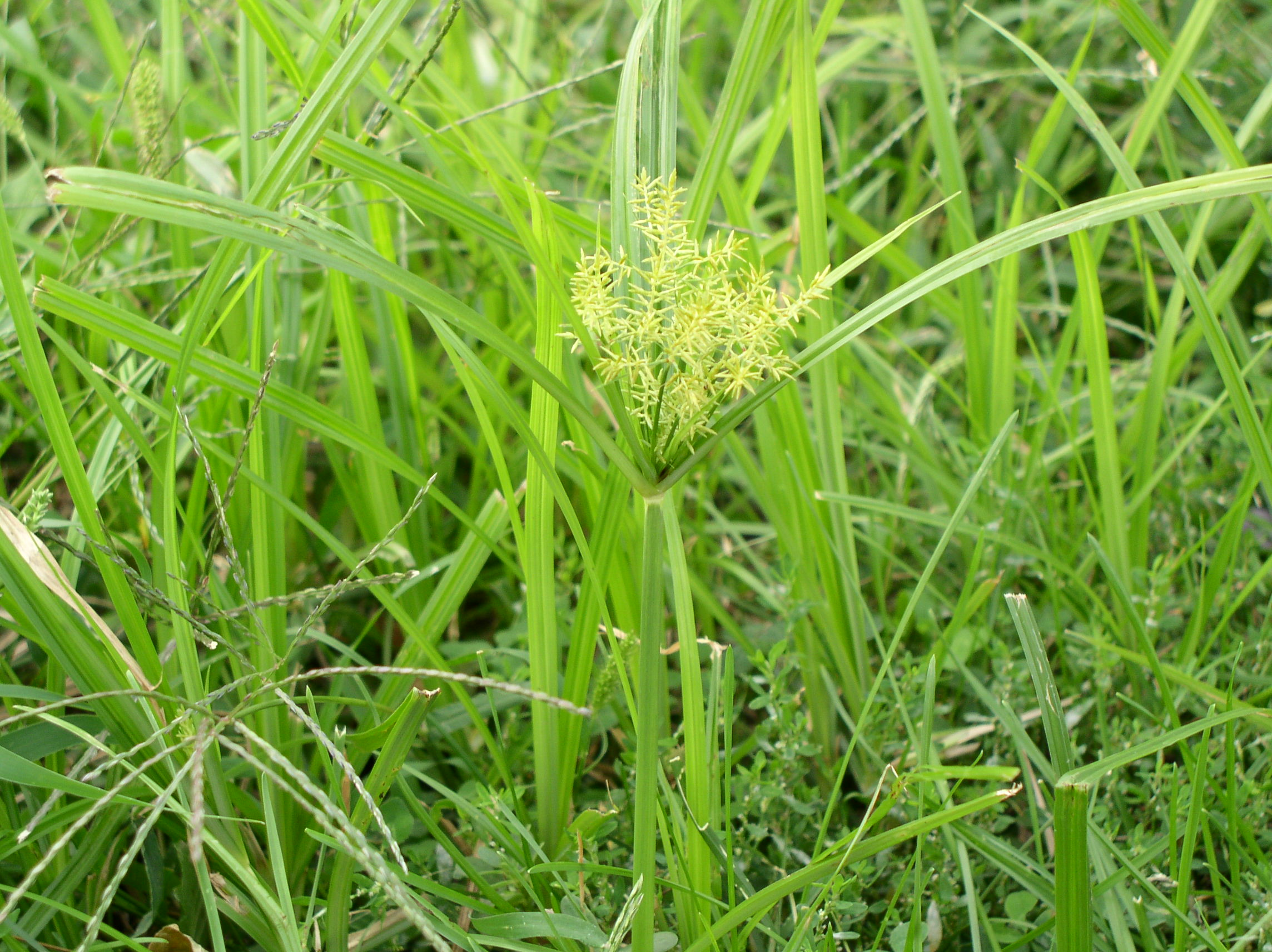 Yellow nutsedge, common North American lawn weed